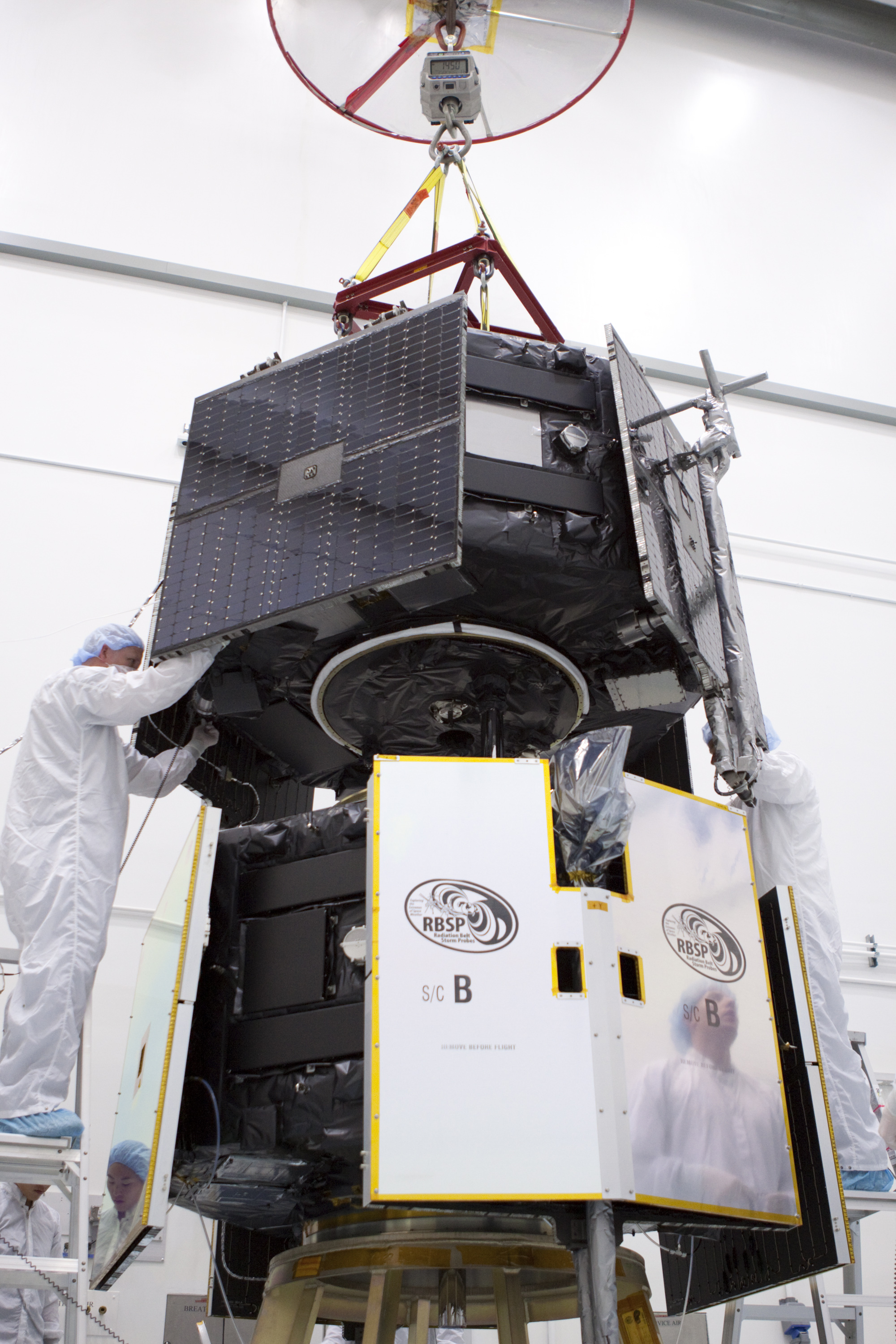 TITUSVILLE, Fla. - Inside the Astrotech payload processing facility in Titusville, Fla. near NASA’s Kennedy Space Center, technicians use a crane to position the Radiation Belt Storm Probes, or RBSP, spacecraft A for stacking atop RBSP B. NASA’s RBSP mission will help us understand the sun’s influence on Earth and near-Earth space by studying the Earth’s radiation belts on various scales of space and time. RBSP will begin its mission of exploration of Earth’s Van Allen radiation belts and the extremes of space weather after its liftoff aboard a United Launch Alliance Atlas V from Space Launch Complex 41 at Cape Canaveral Air Force Station, Fla. Liftoff is targeted for Aug. 23, 2012. For more information, visit